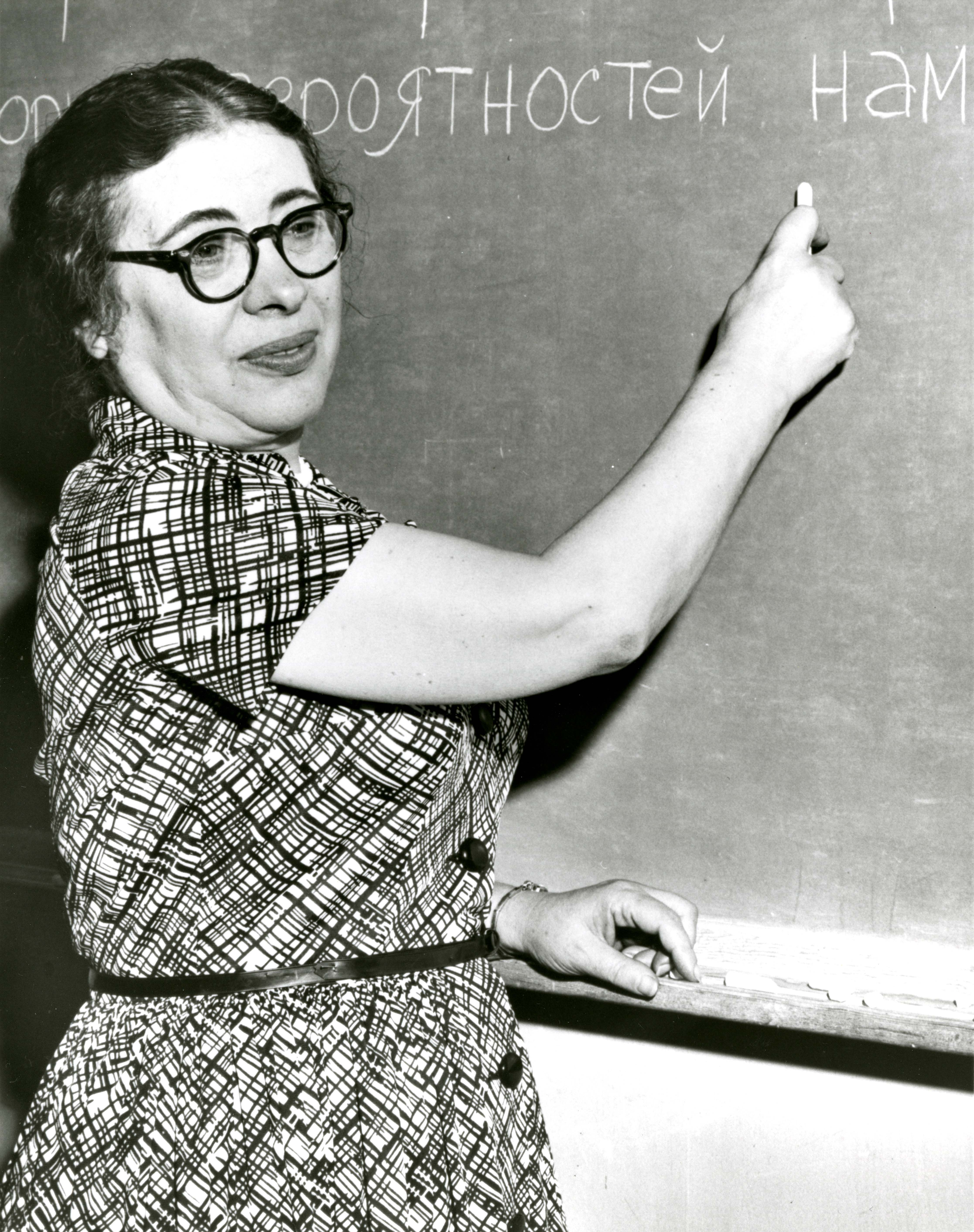 Ida Rhodes at the National Bureau of Standards (NBS). Mathematician and computer expert Ida Rhodes worked at NBS from 1940-1975. Rhodes designed the C-10 language used by one of the earliest computers, the UNIVAC 1. She also worked on computer translation of Russian, gave lectures to government agencies and private firms to promote the computers’ ability to make their work more efficient, and taught computer coding to people with physical disabilities. In 1977, she developed an algorithm for computing the dates of the Jewish holidays that is still used today.